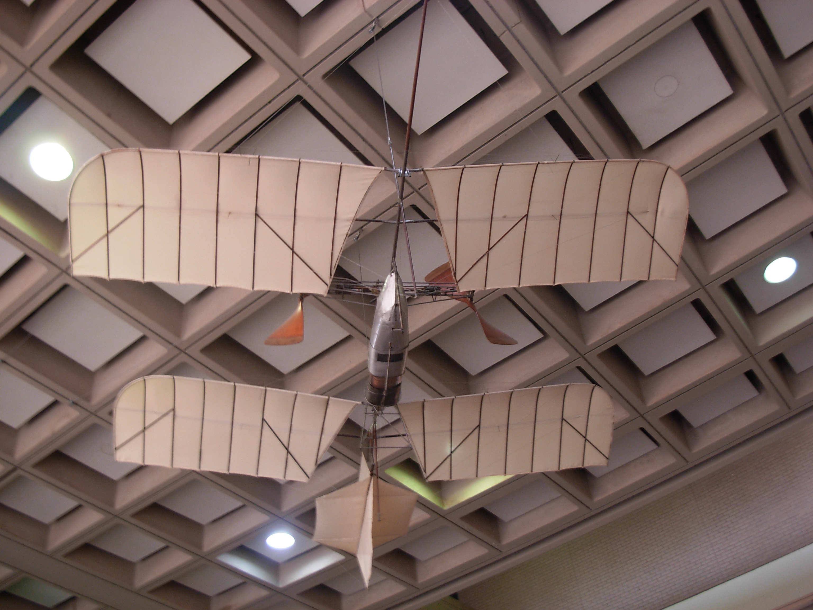 Langley Aerodrome at WWPH, University of Pittburgh from turn of the 19th and 20th century.